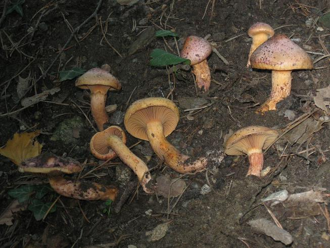 Chroogomphus helveticus (Pilat) Kuthan & Singer